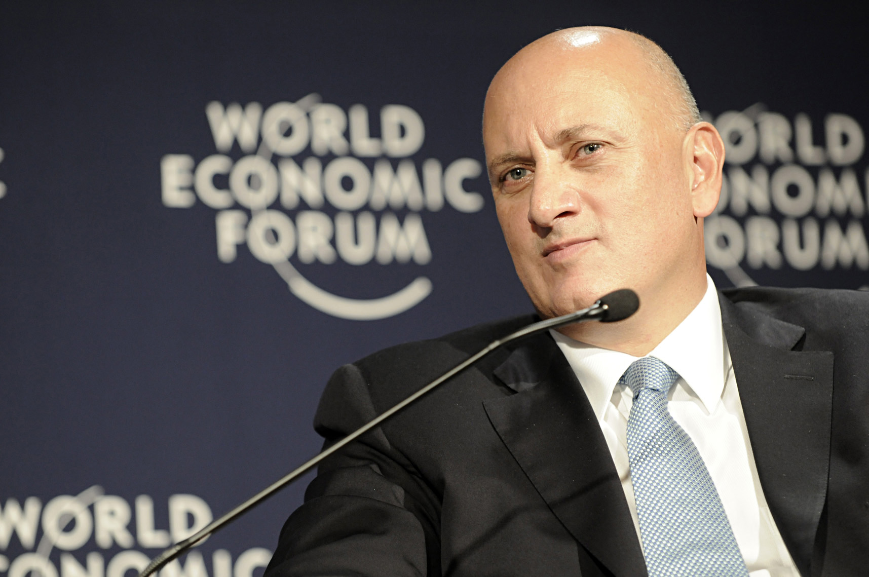 ISTANBUL/TURKEY, 31OCT08 - Sureyya Ciliv, Chief Executive Officer, Turkcell Iletisim Hizmetleri, Turkey at the World Economic Forum on Europe and Central Asia in Istanbul, 30 October - 1 November 2008. Copyright World Economic Forum ( by Serkan Eldeleklioglu-Bora Omerogullari-Ozan Atasoy